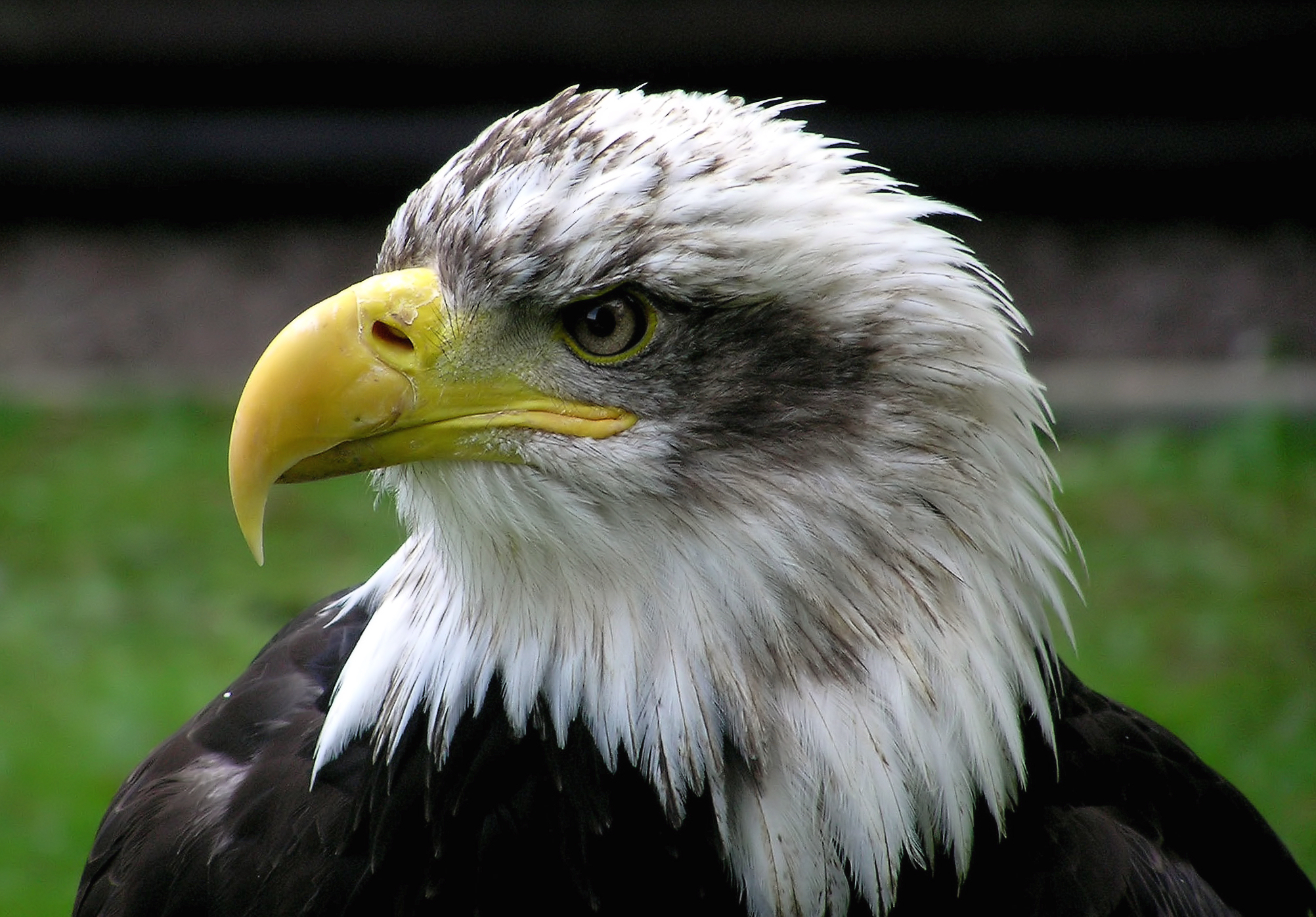 Bald Eagle at Combe Martin Wildlife and Dinosaur Park, North Devon, England.